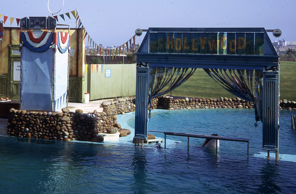 Shamu Goes Hollywood